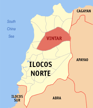 Map of Ilocos Norte showing the location of Vintar